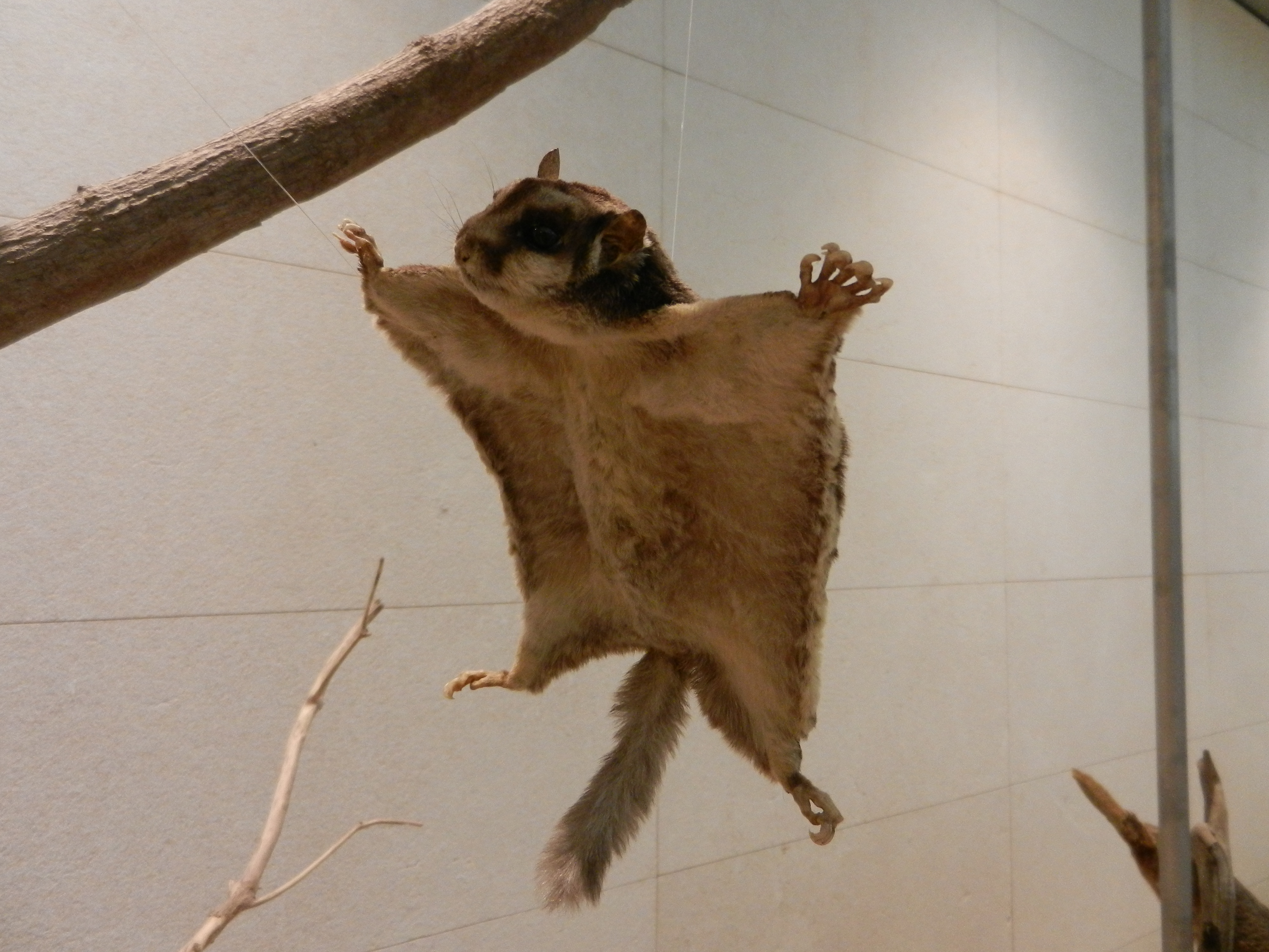 Photo taken at MuSe in Trento.